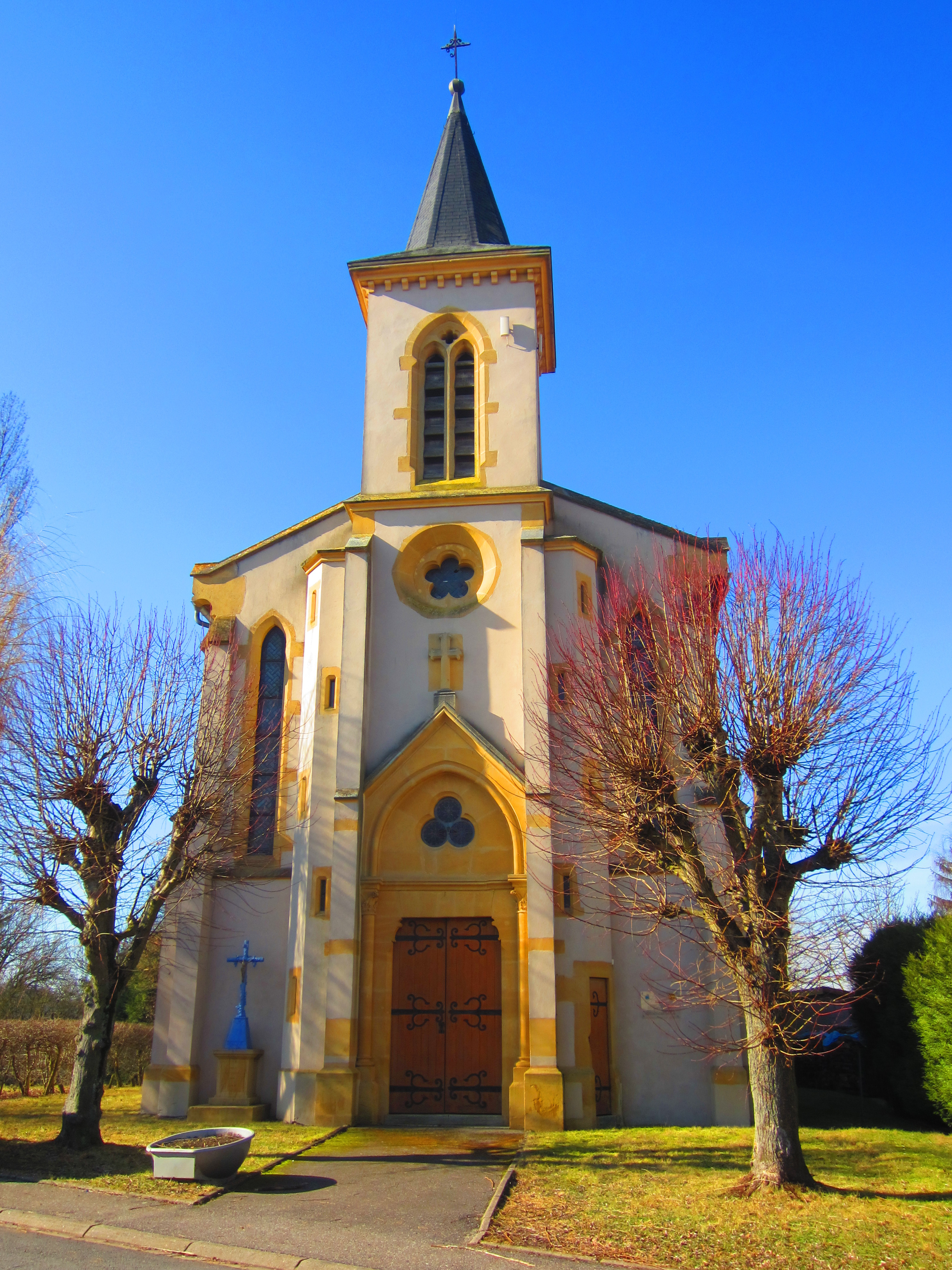 Vremy chapel